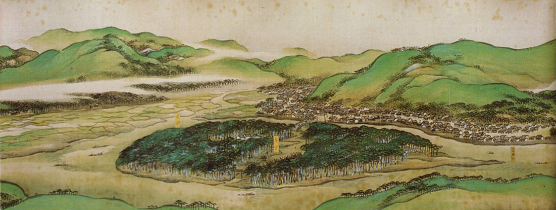 Boating on Kumano ;2 of 2 scrolls,colors on paper 熊野舟行図巻 下巻